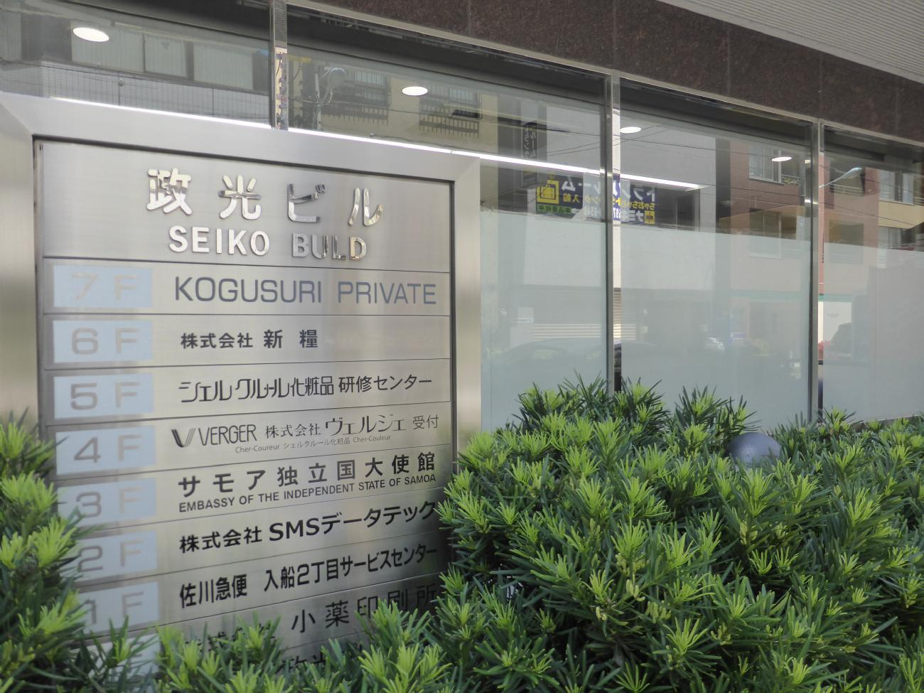 The Embassy of Samoa resides on the third floor of Seiko Building in Tokyo, Japan.